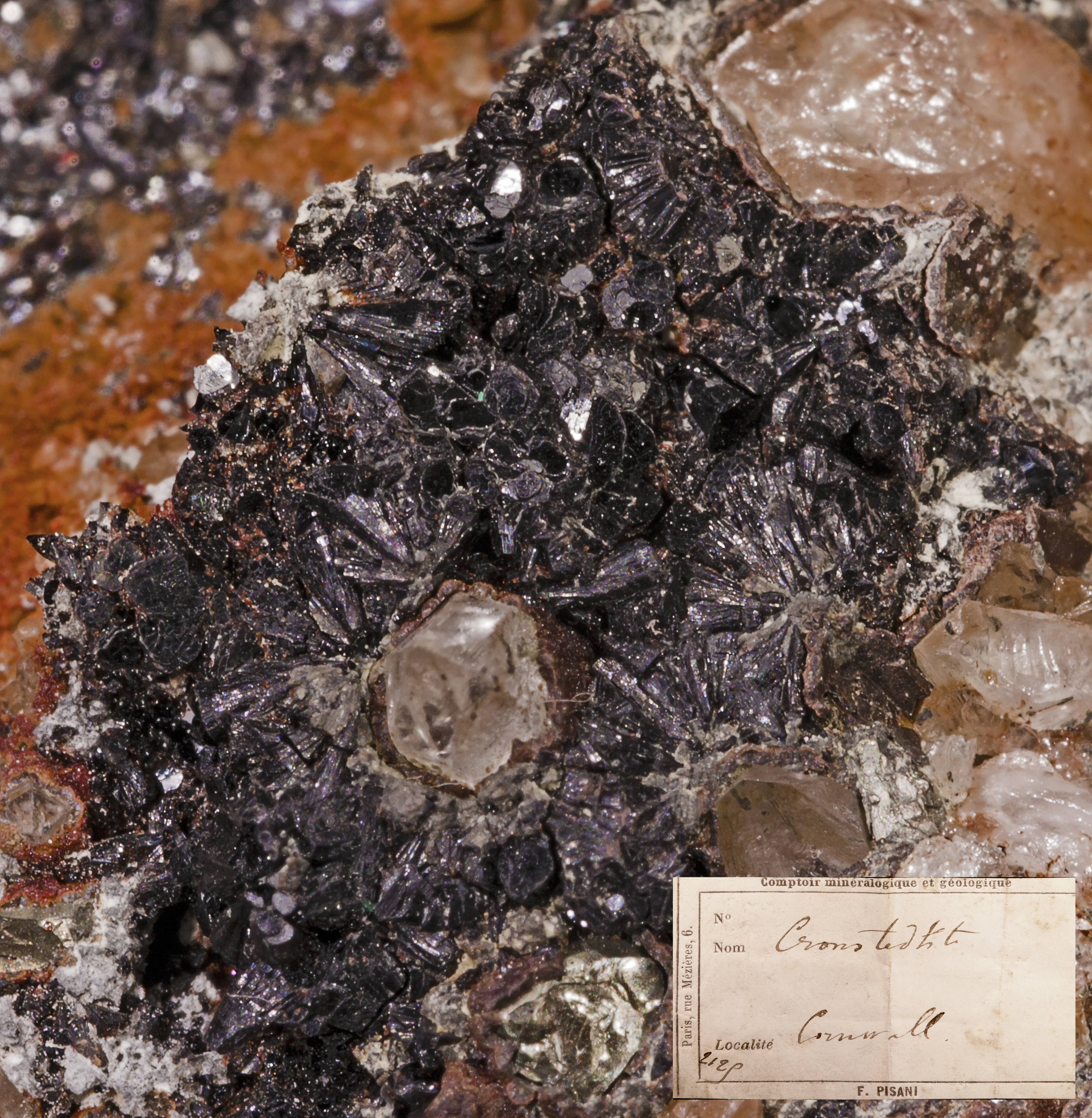 Cronstedtite Locality: Wheal Jane (Falmouth Consolidated Mines), Baldhu, Kea, Camborne - Redruth - St Day District, Cornwall, England, UK Size : view 1.5 cm